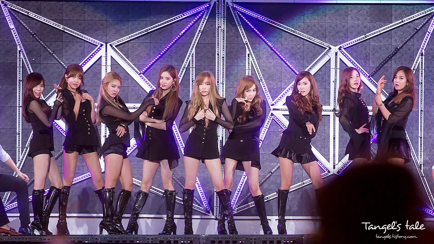 Girls' Generation at the 2014 SMTOWN in Seoul.